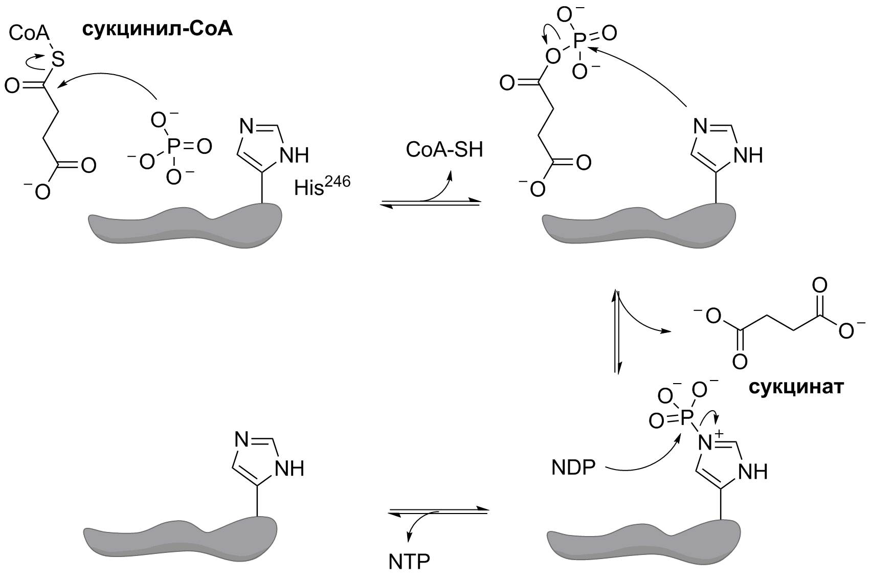 Krebs Cycle Reaction 7 Mechanism